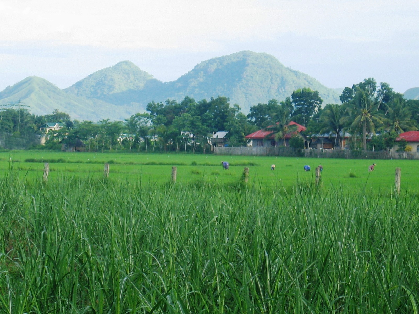 Countryside view of rural areas of Banate. Photo taken by Sulbud. Sulbud: Sulbud 02:54, 2 July 2007 (UTC)